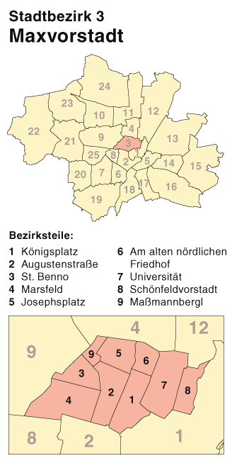 Boroughs of Munich map series